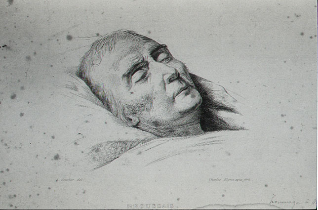 Portrait of French physician François Broussais (1772-1838) on his death-bed. Etching by Charles Blanc. First published in the review "L'Artiste" in 1838.